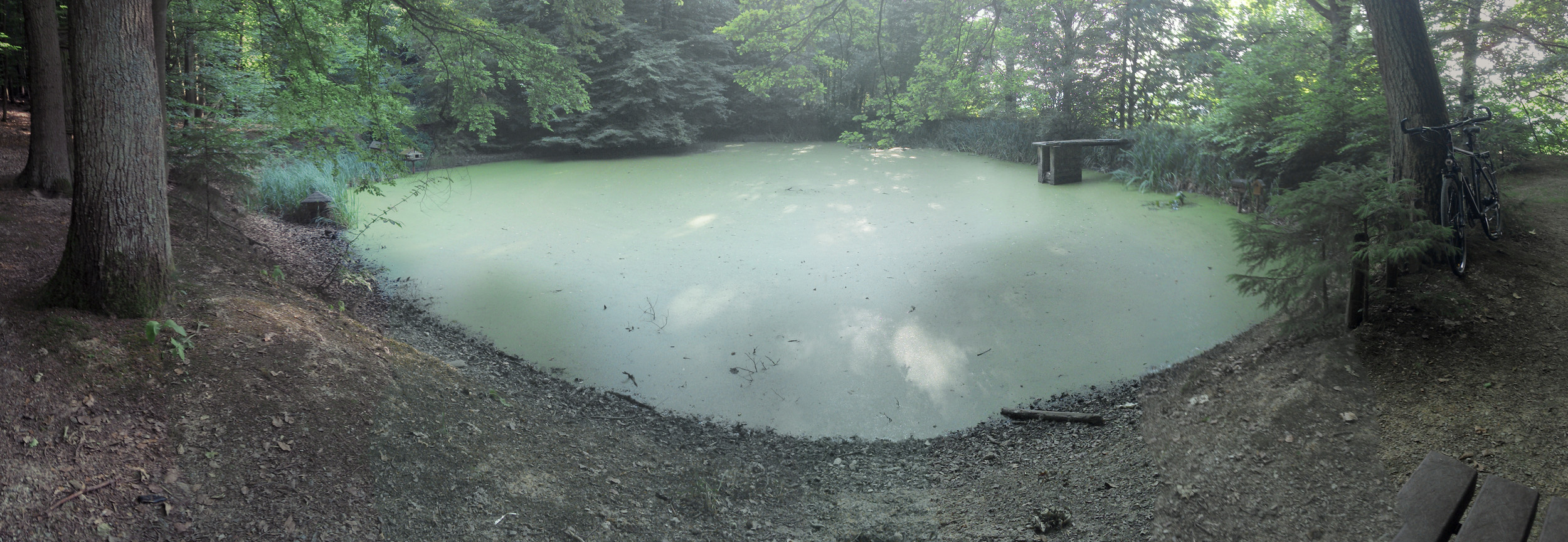 One of the two sources of the Wetzbach near Oberwetz